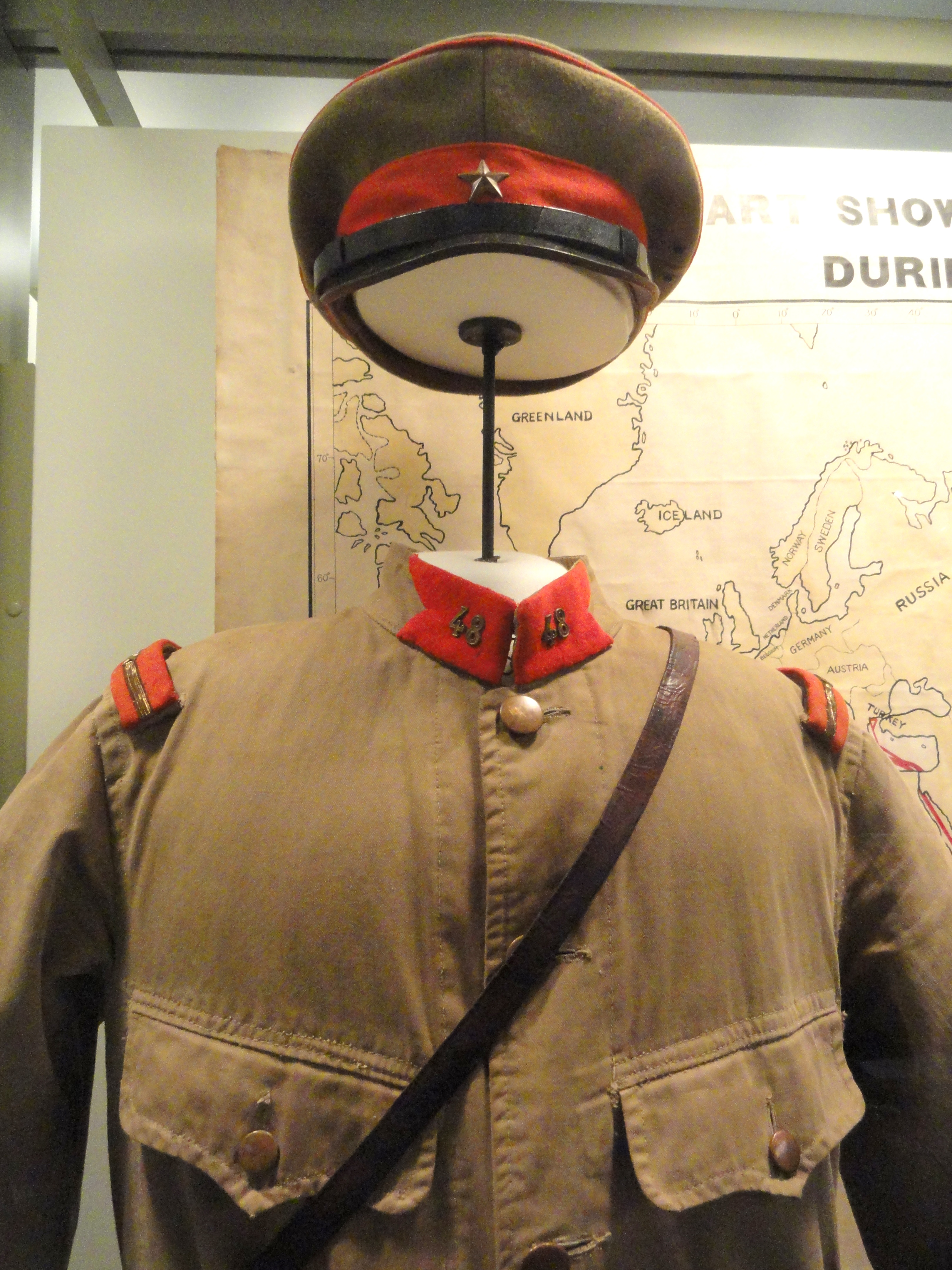 Uniform exhibited in the National World War I Museum at the Liberty Memorial, 100 W. 26th Street, Kansas City, Missouri, USA.